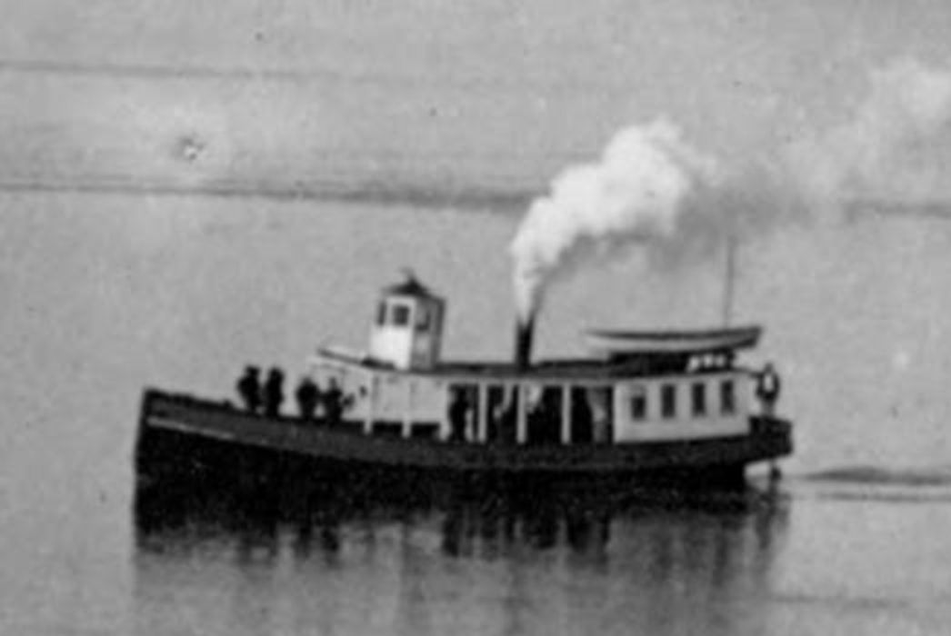 The steamer Tressa May on Yaquina Bay, circa 1888.